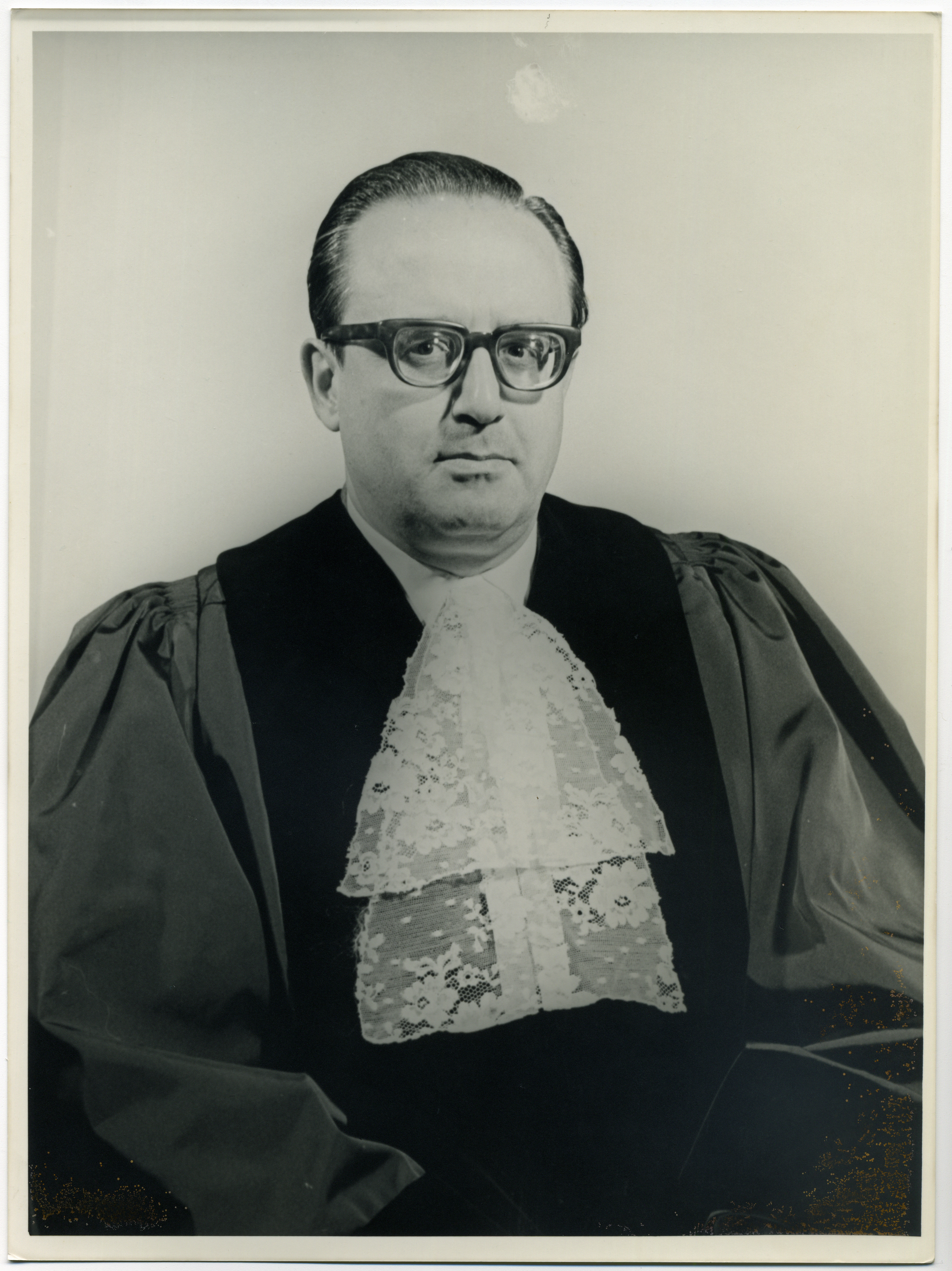 Black and white portrait of His Excellency Mr. José María Ruda.